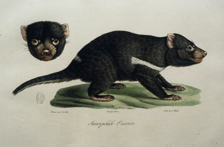 Gravure of Sarcophilus harrisii published in CUVIER, F. G.. "Sarcophile oursin". In: GEOFFROY SAINT-HILAIRE, É. & CUVIER, F. G.. Histoire Naturelle des Mammifères. Paris: Chez A. Belin, Libraire-Éditeur, 1837. pp. 1-6. vol. pt. 4.